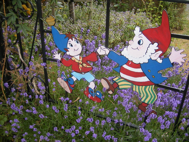 Beaconsfield Themed Fencing Decorative fencing adjacent to Council Offices in new Beaconsfield. There are several panels in the fence, each depicting one element of Beaconsfield's heritage. Enid Blyton is here represented by Noddy and Big Ears. She lived within this grid square for many years.